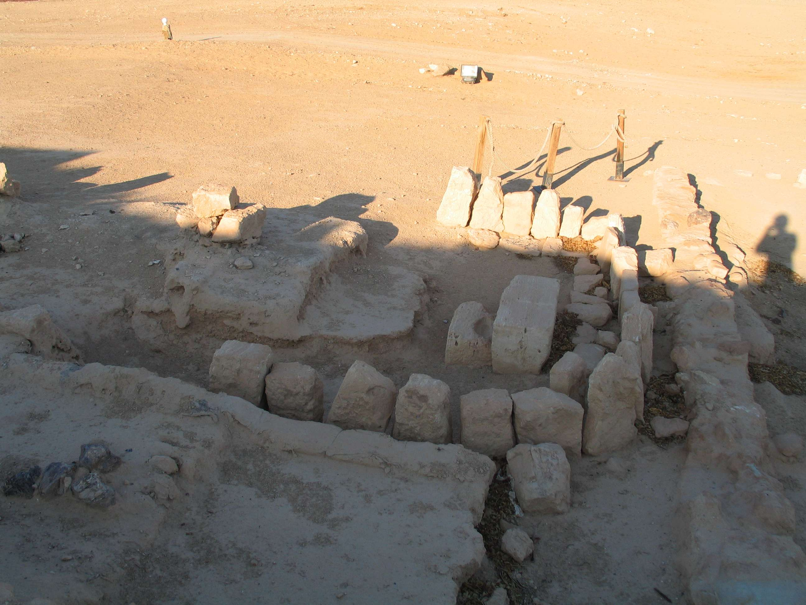 Metsad Hatseva, Israel.